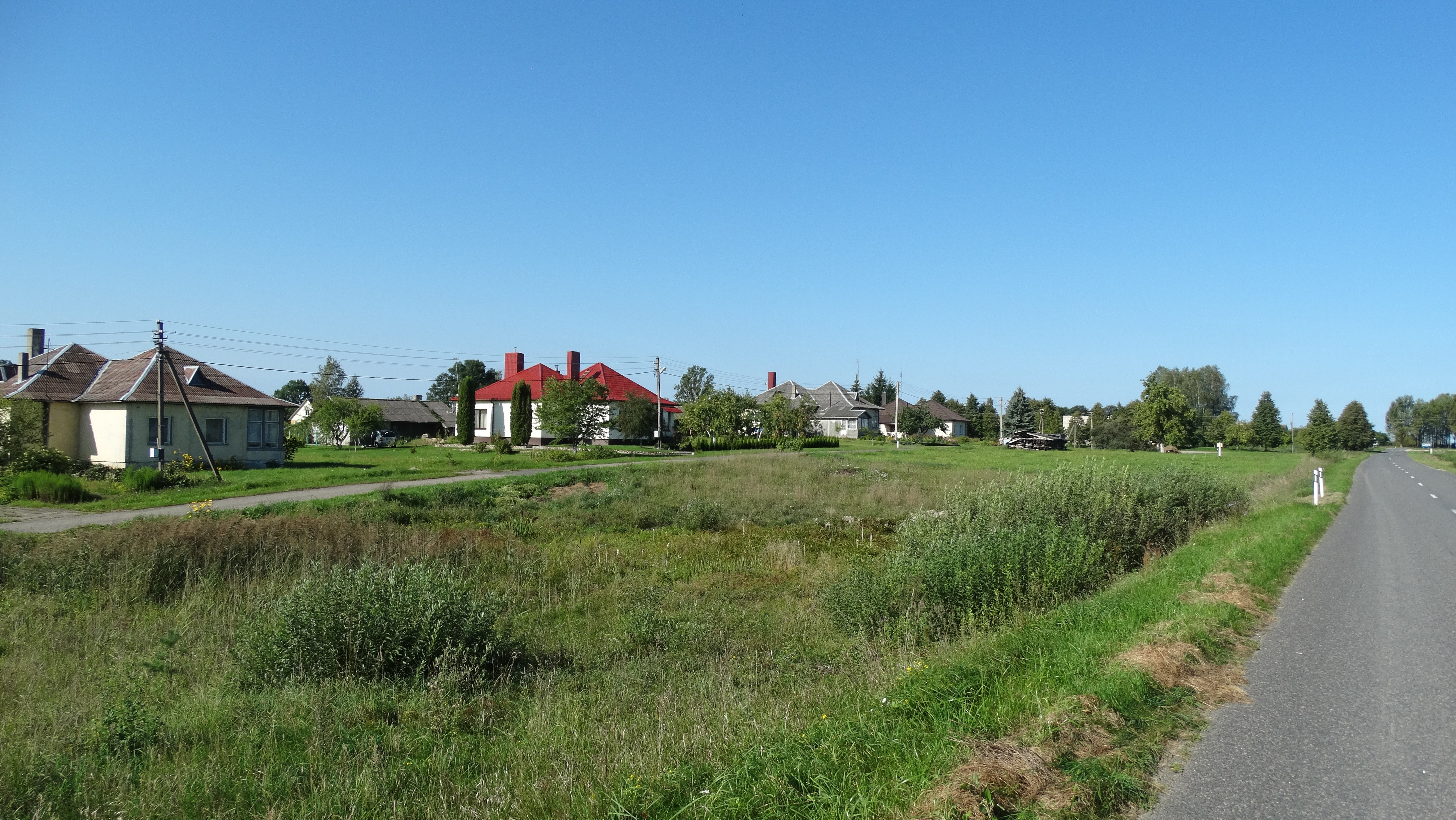 Skirlėnai, Vilnius district, Lithuania